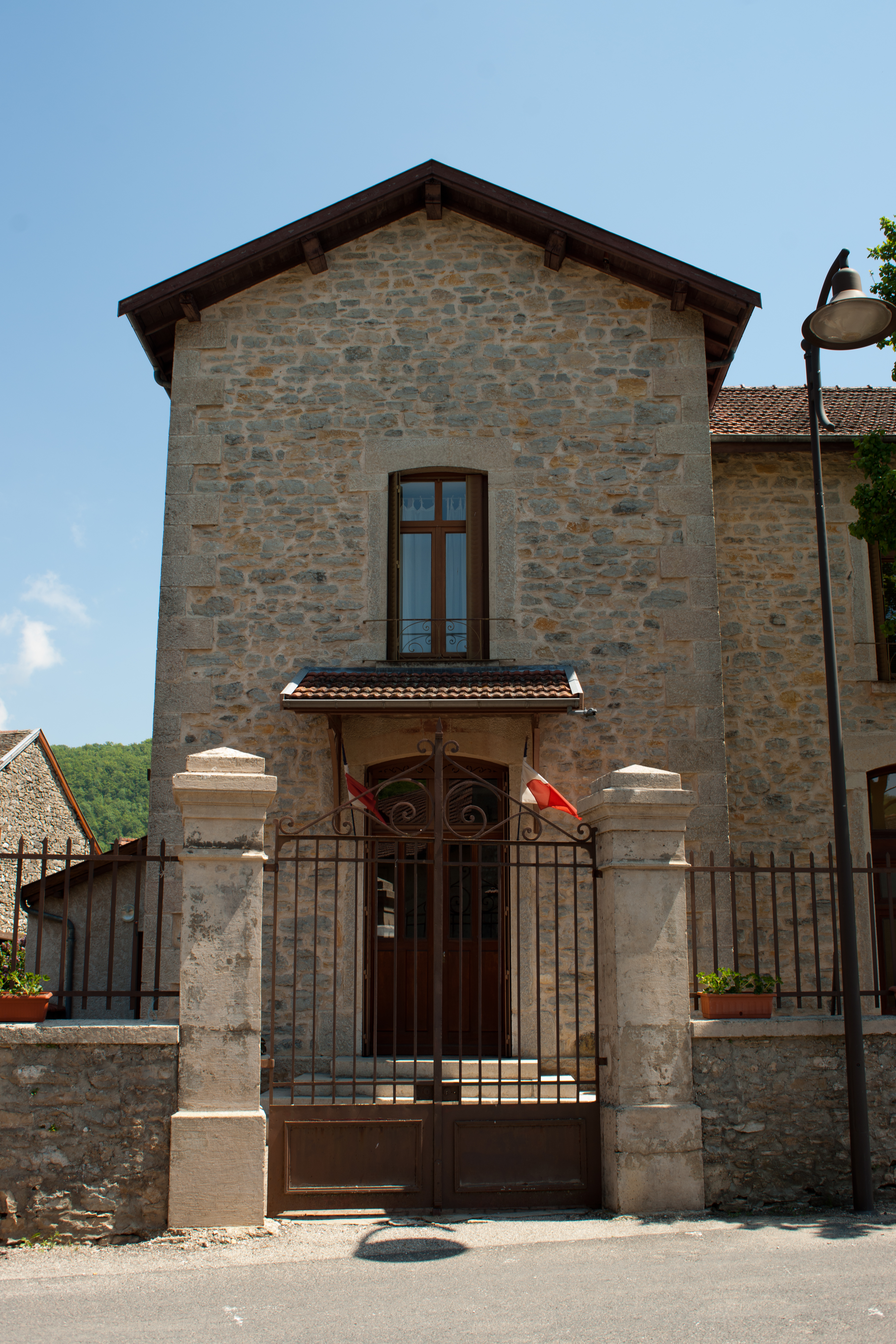 Townhall of Seillonnaz, France.